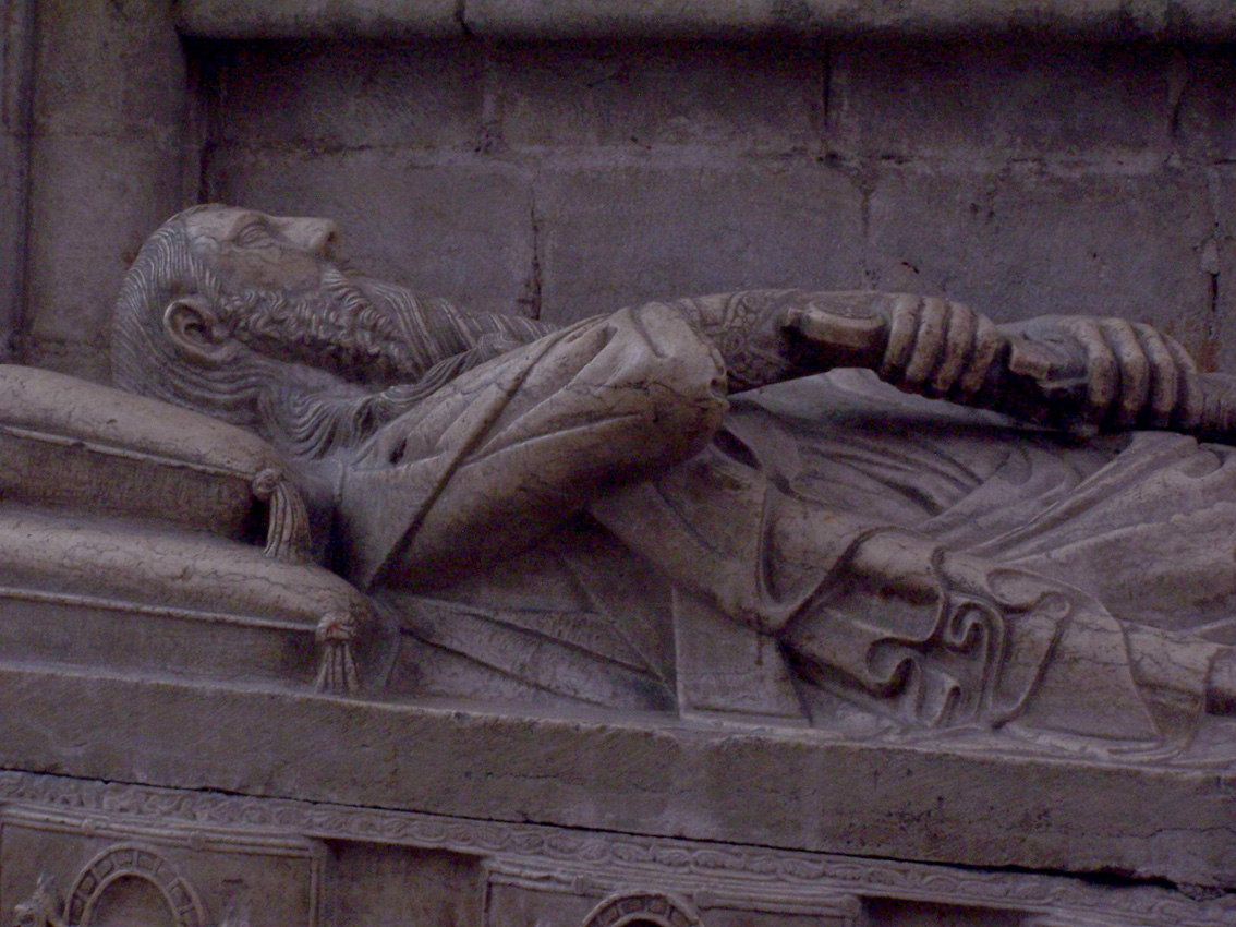 Tomb of knight in Lisbon cathedral